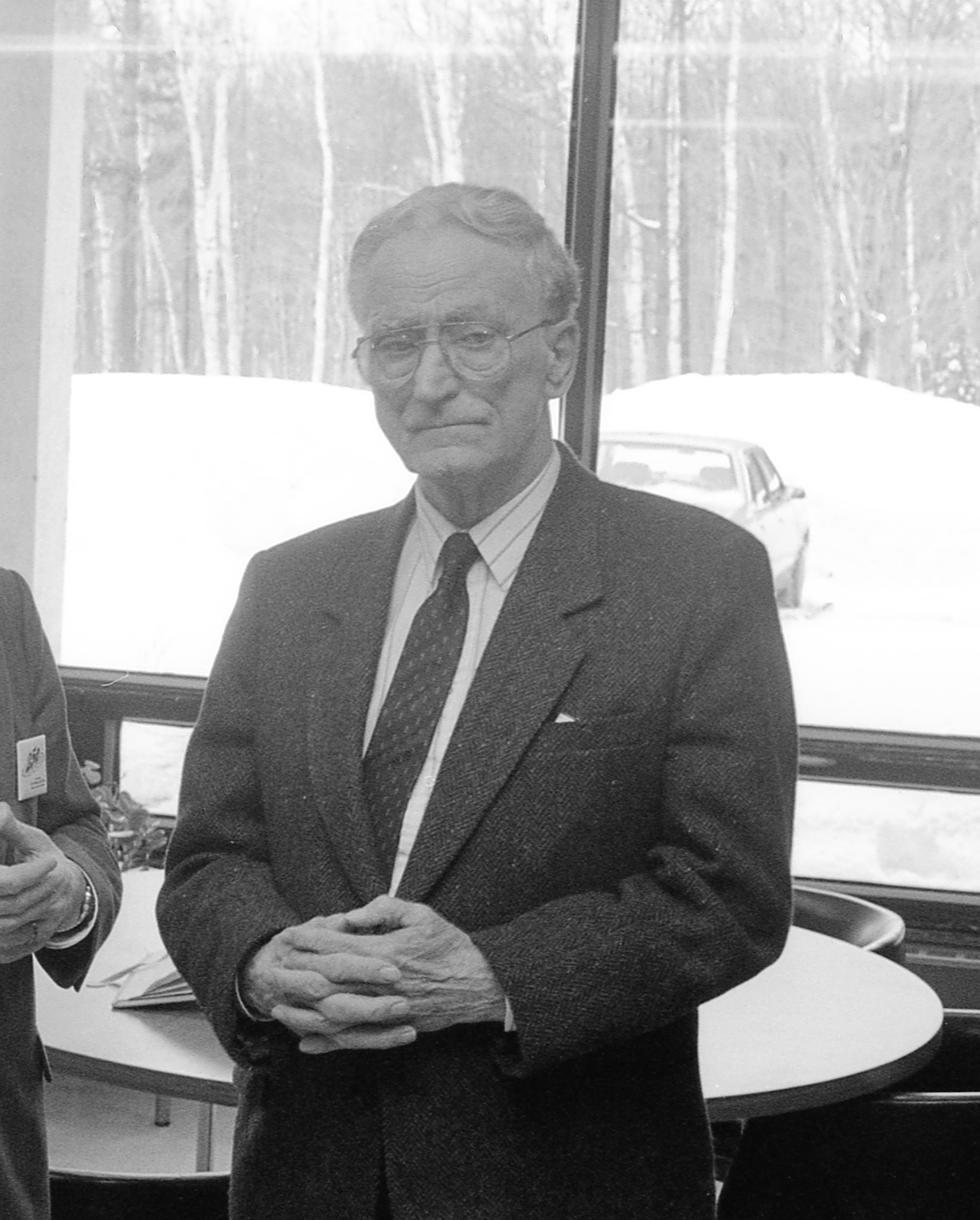 Claude Ryan, 1988, visits Quebec City area school as Minister of Education